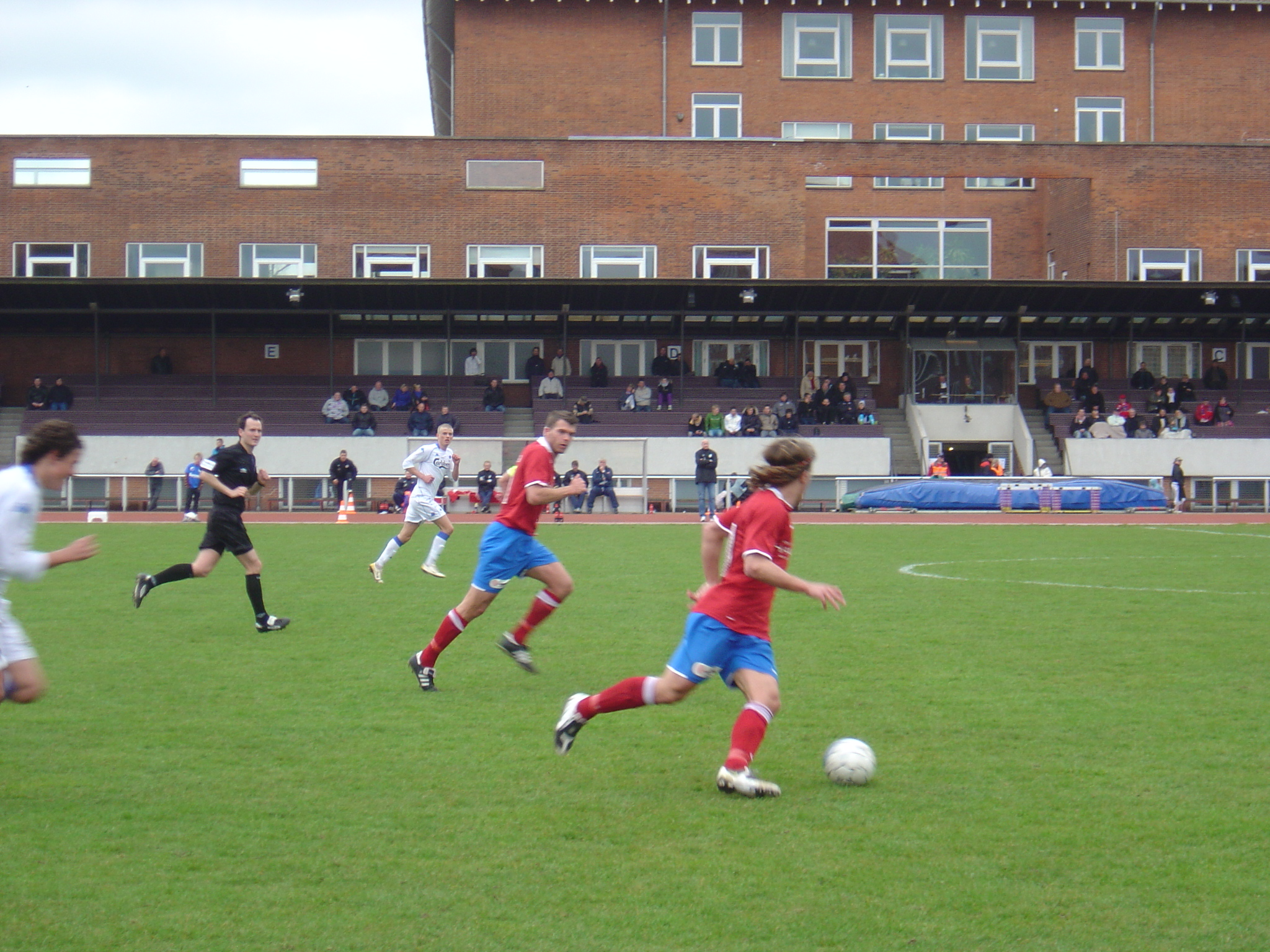 F.C. Copenhagen (II) against FC Vestsjælland — match action during a Danish 2nd Division East (level 3) match between the two Danish Association football clubs of F.C. Copenhagen (reserve team) and FC Vestsjælland on 5 April 2009 at Frederiksberg Idrætspark. The football players in focus are Andreas Mortensen and Kristian Uth.